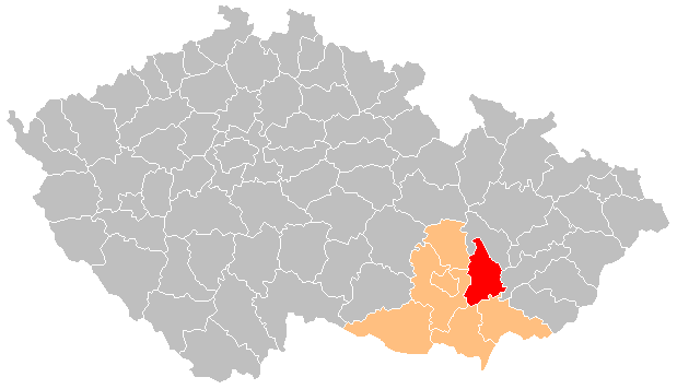 Vyškov District within South Moravia Region. Current borders of districts since January 1, 2007.